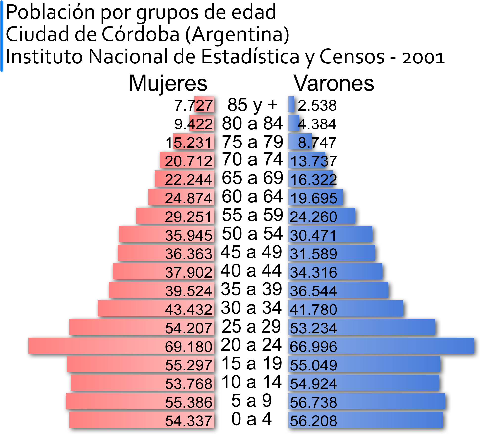 Population by age group. Cordoba, Argentina, 2001.